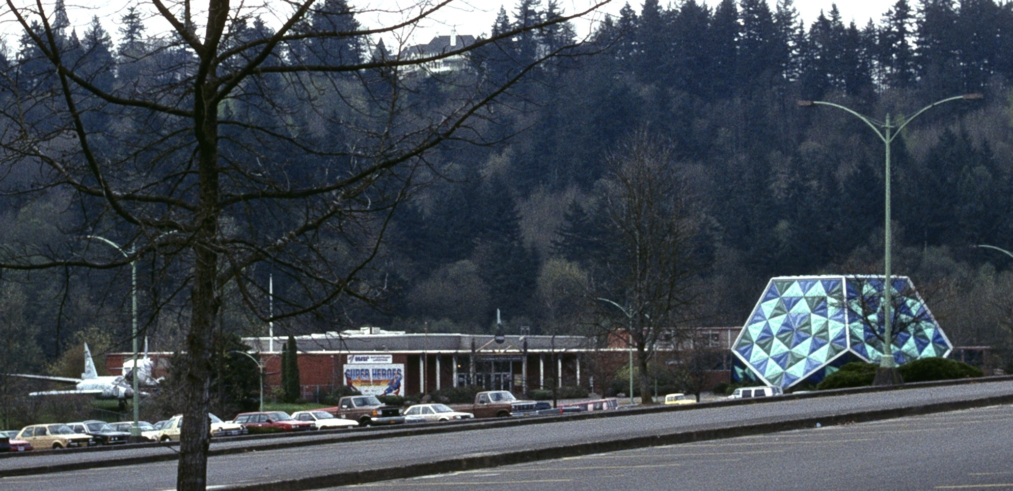 A 1994 photo of the former site of the Oregon Museum of Science and Industry (OMSI), in Washington Park, adjacent to the Oregon Zoo and the World Forestry Center (in Portland, Oregon). OMSI moved to this site in 1958, and moved again in 1992 to its current site, on the Willamette River. The main building shown here became the Portland Children's Museum in 2001, but in 1994 it was still being used by OMSI as a supplementary building called the Educational Resource Center. Still in place at that time was the planetarium – in the dodecahedron (12-sided) building in front of the main building – and two vintage airplanes, but all three have since been removed. The planes were a former Oregon Air National Guard F-102 and a former Hughes Air West DC-3 (converted into a C-47 cargo plane), which had been at the museum since 1978 and the mid-1960s, respectively. This photo was taken from about 500 feet away, from across a parking lot.